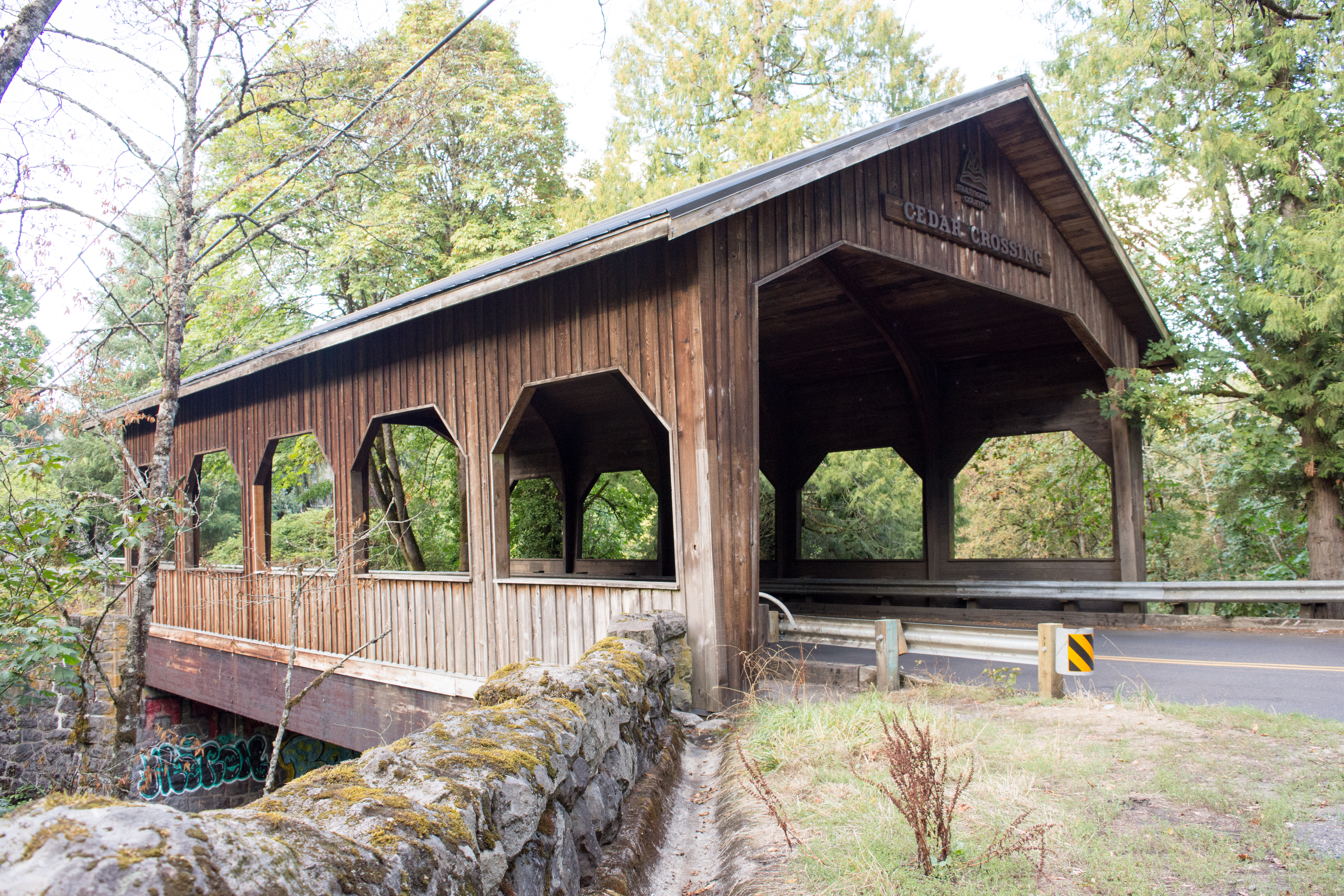 A photo of Cedar Crossing Bridge in Southeast Portland taken during the Summer of 2016.